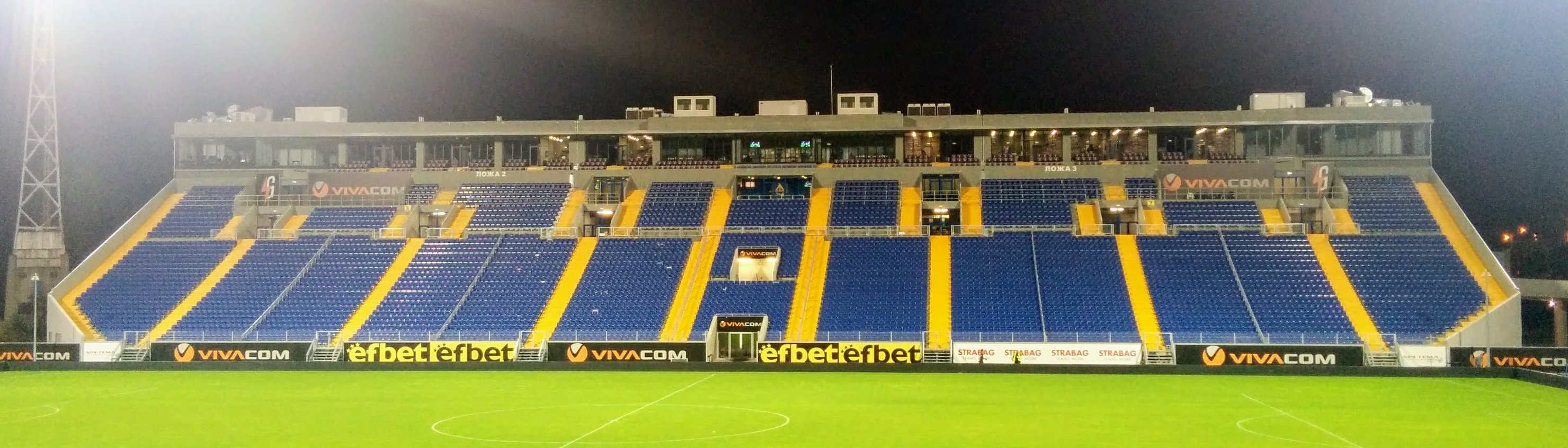 Sector A of PFC Levski Sofia's Georgi Asparuhov Stadium in Sofia, Bulgaria